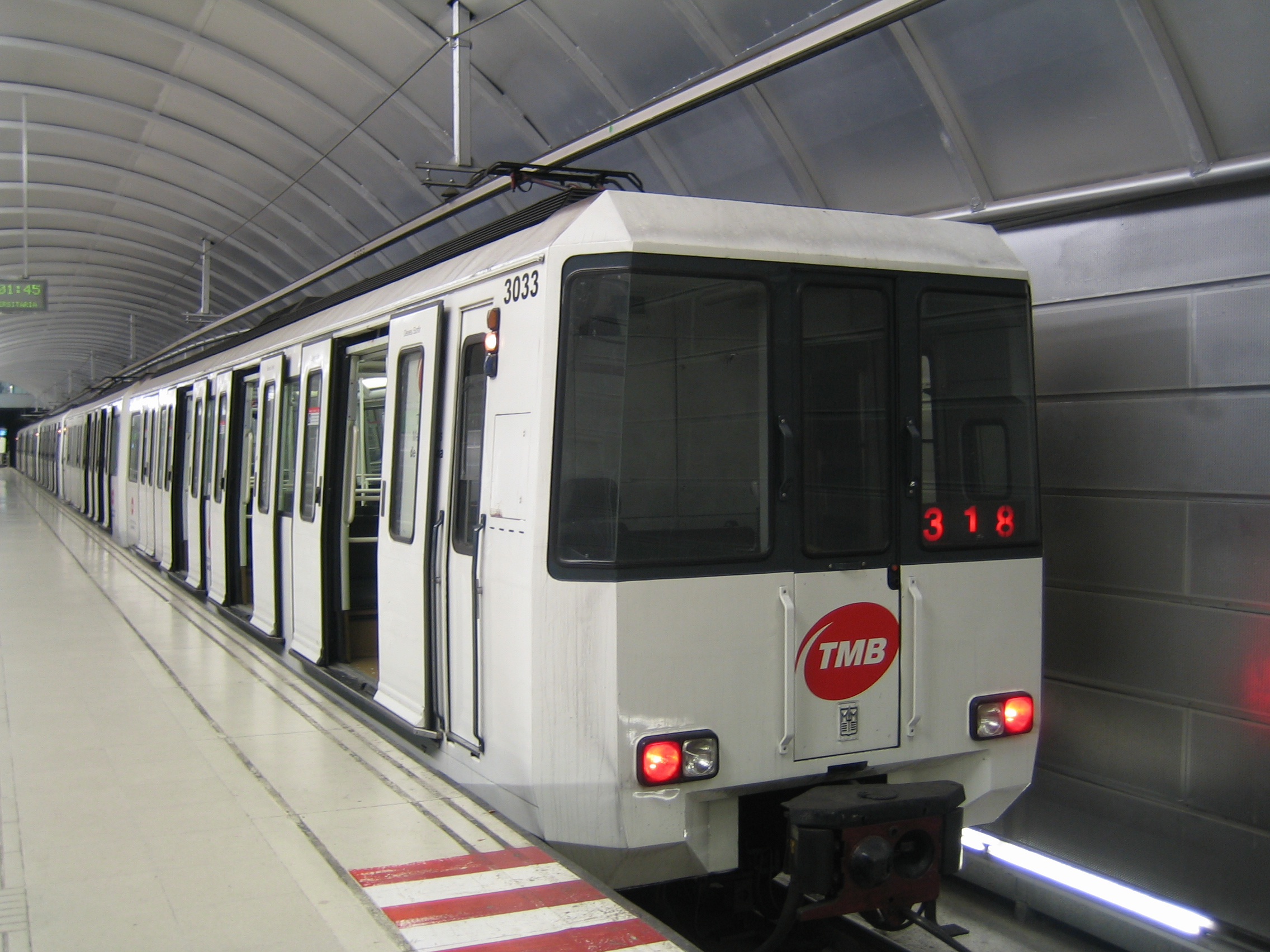 Train type 3000 of Barcelona's metro at Canyelles station